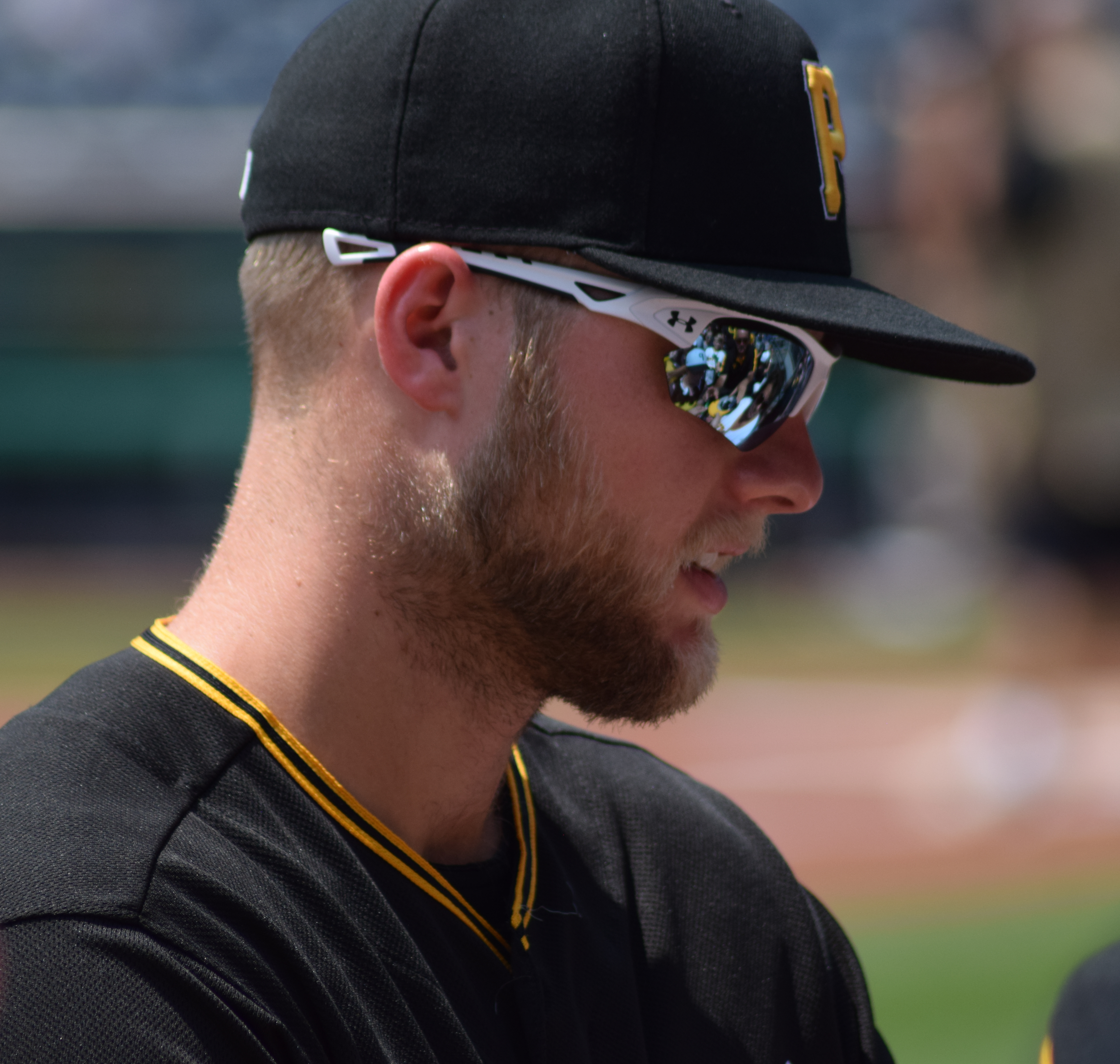 Austin Meadows of the Pittsburgh Pirates at PNC Park in Pittsburgh in July 2018